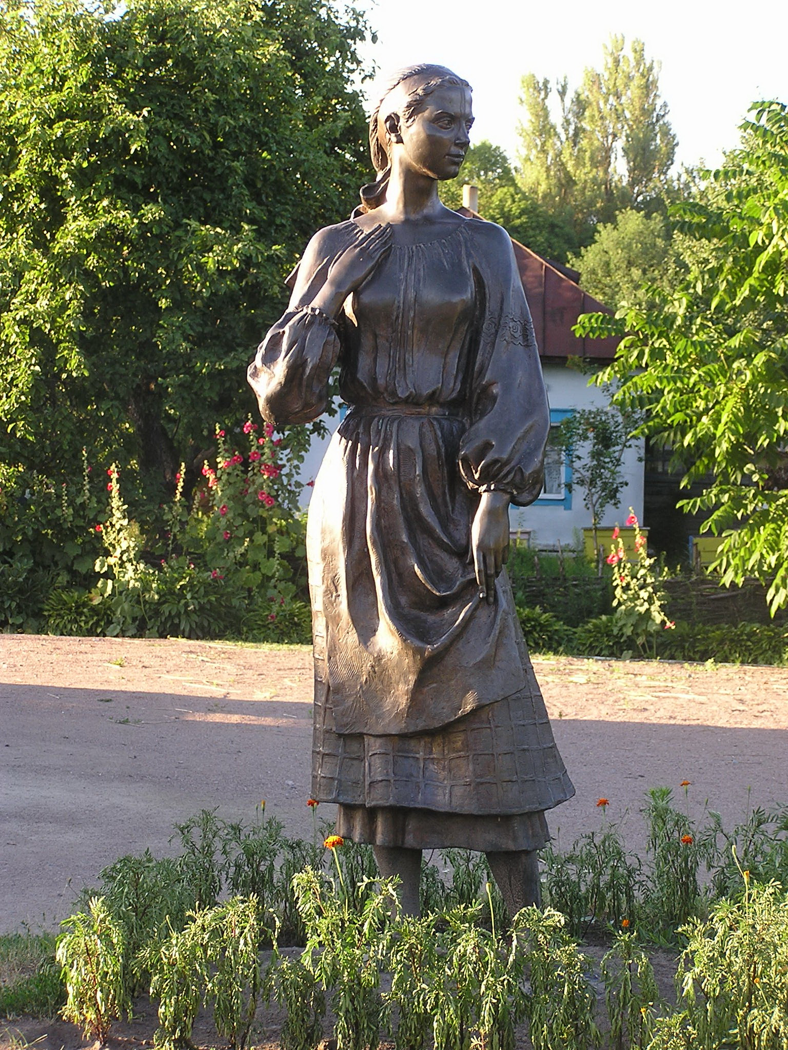 Hannah Barvinok, a writer and the wife of P.Kulish, ‚Historical-memorial complex Hannyna Pustyn, Borzna, Ukraine